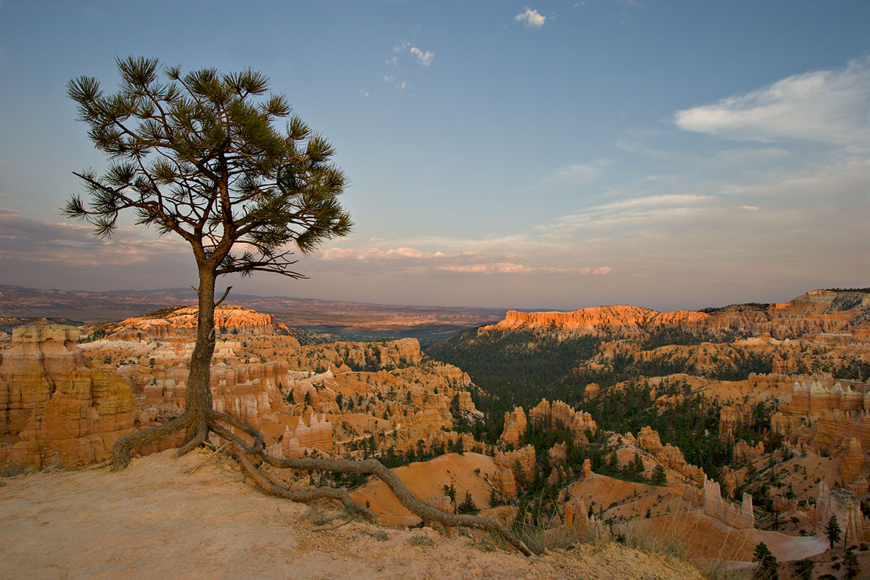 A tree (Pinus ponderosa) clings to the rim at one of the Bryce Canyon overlooks